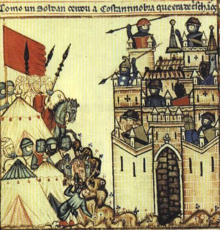 Cantiga 28 a (The 8th century Siege of Constantinople).JPG